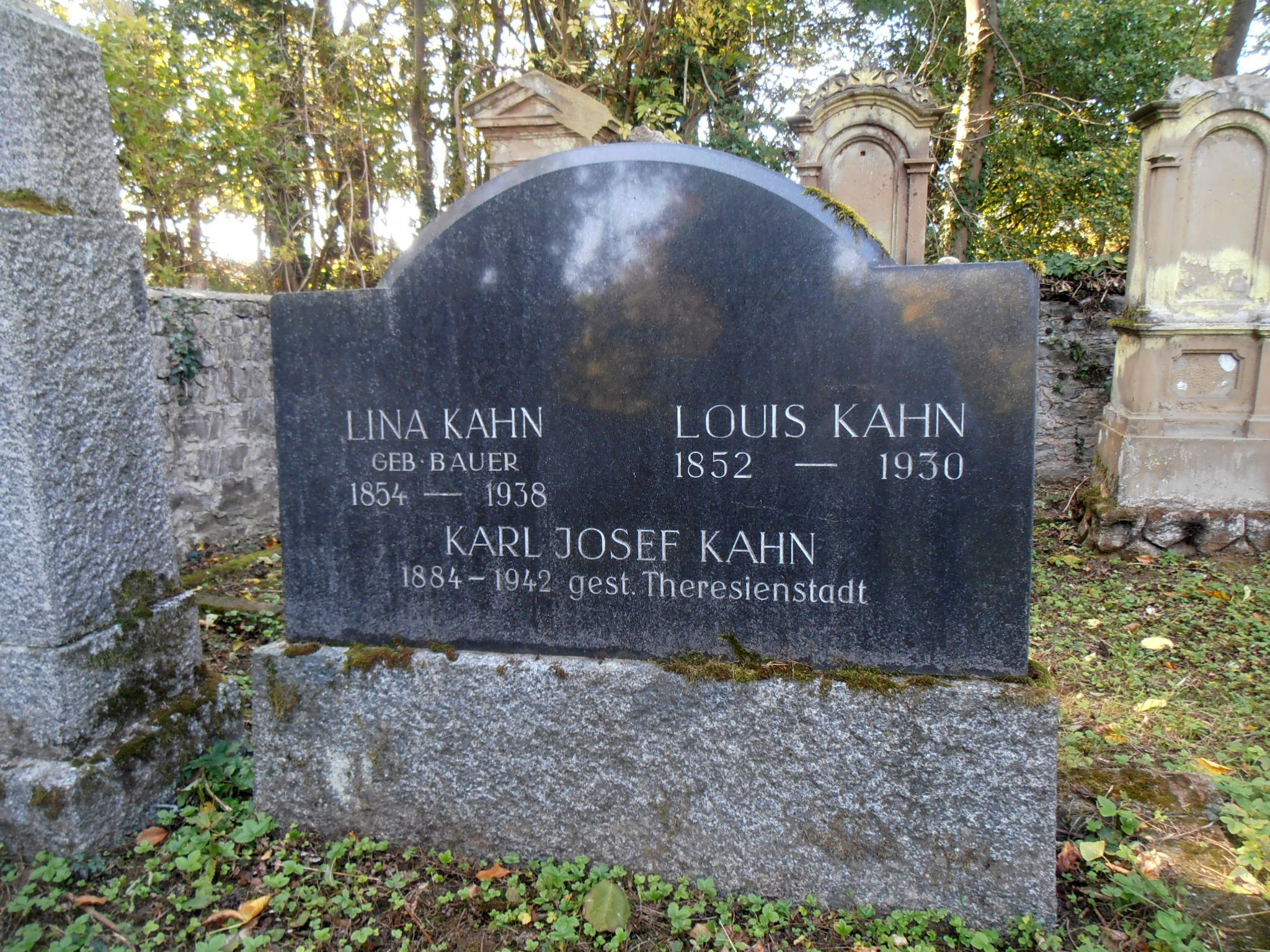 Mazewa of Kohanim family